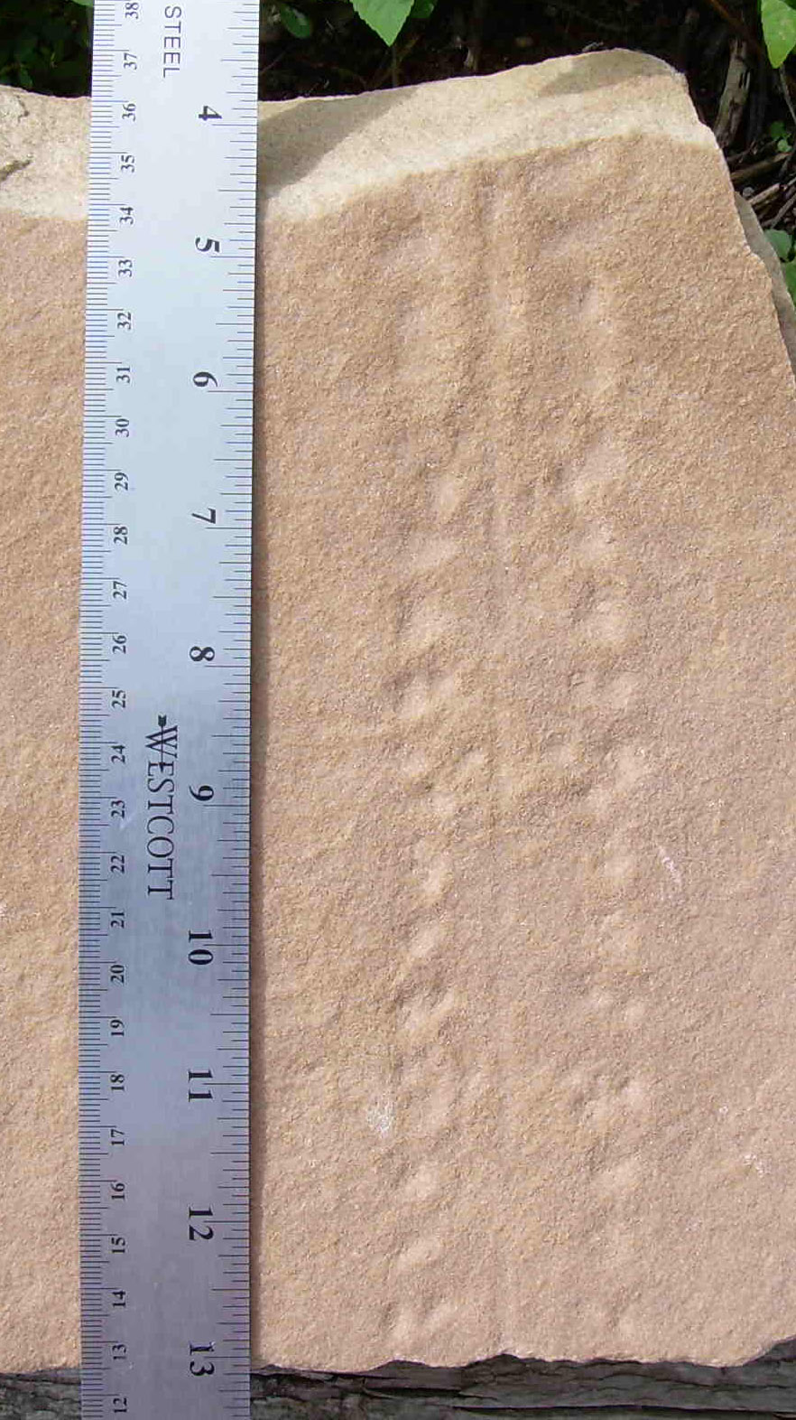 Protichnites tracks, late Cambrian, central Wisconsin, Joshua Gass collection, On display at Weis Earth Science Museum